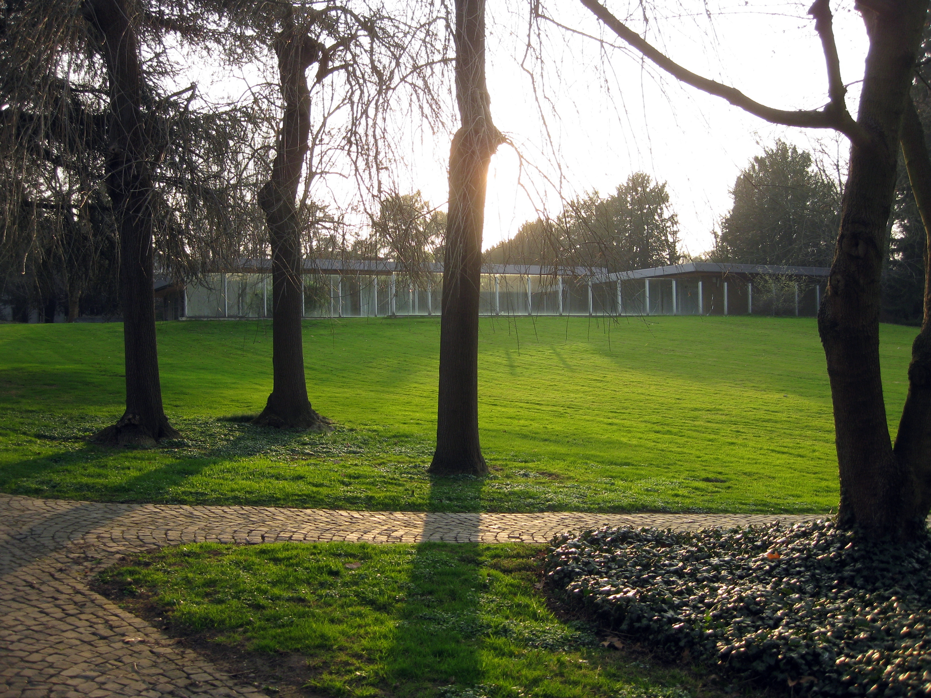 Germany, Bonn: the former chancellor's bungalow; backside view from the park.